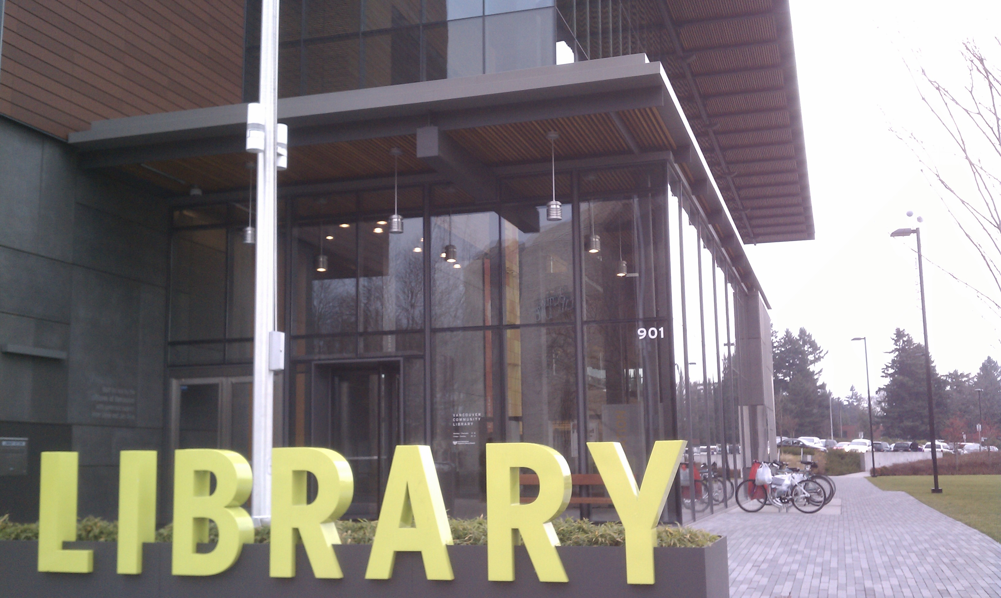 The newly-built library in downtown Vancouver, Washington.